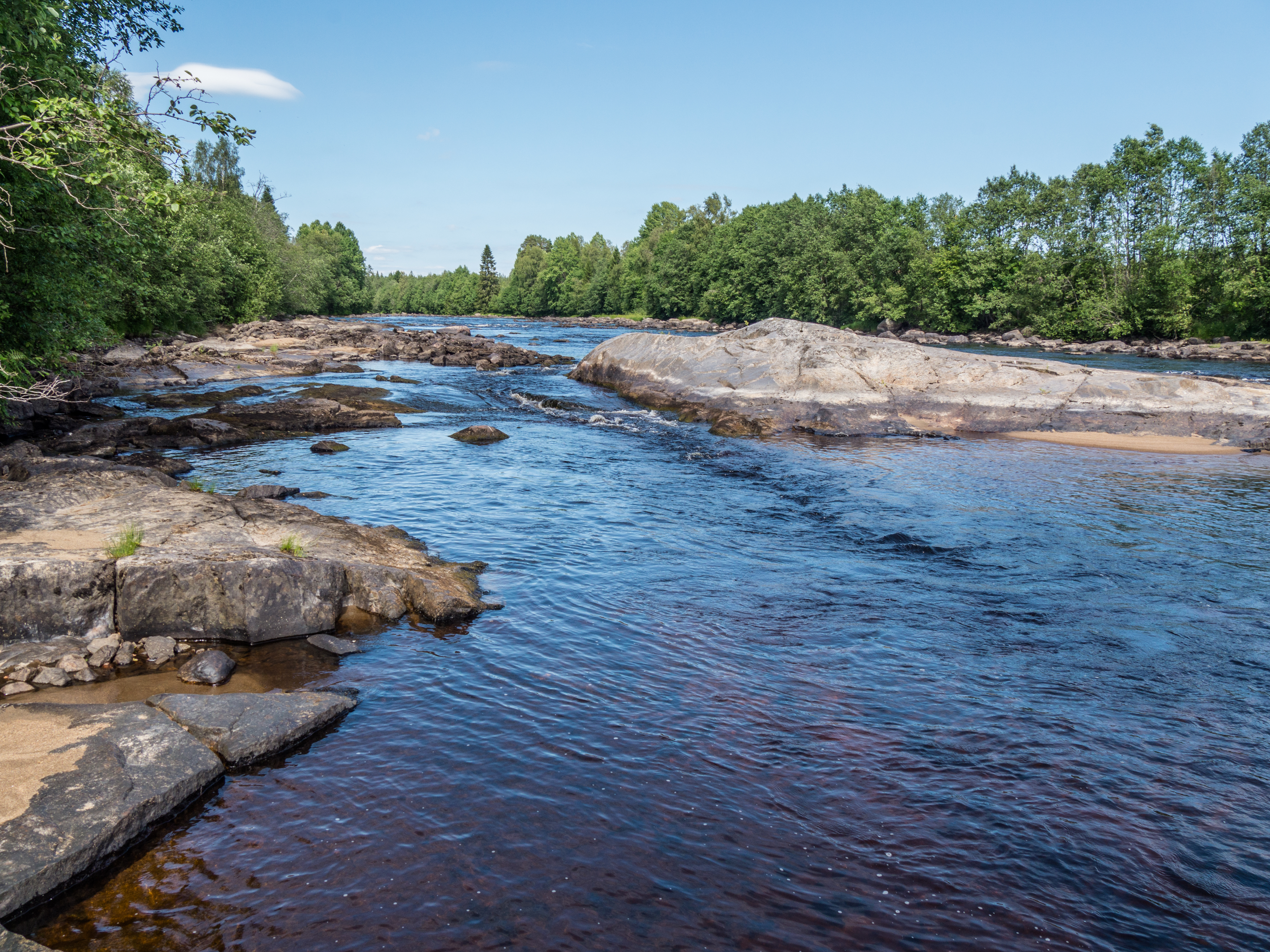 Gideälven near Gideåbacka